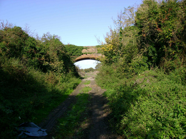 Bridge over old SER Railway line to Margate Sands This was the old SER Railway branch line from Ramsgate to Margate Sands station, opened in 1846 and closed in 1923 when the London Chatham Railway used a different route, the bridge connects Nash Road with Nash Court Road, and is now only open as a footbridge